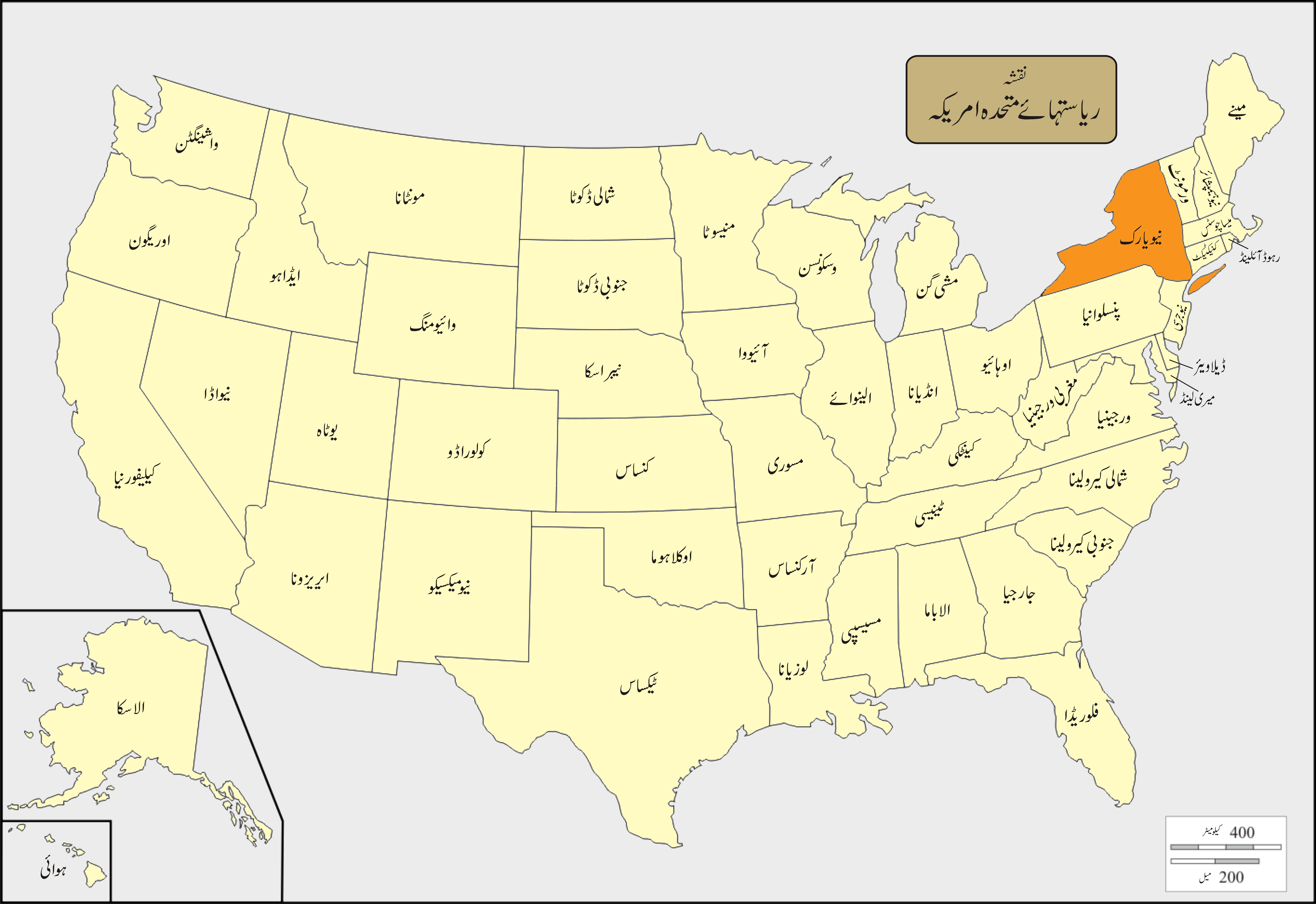 USA Names New York